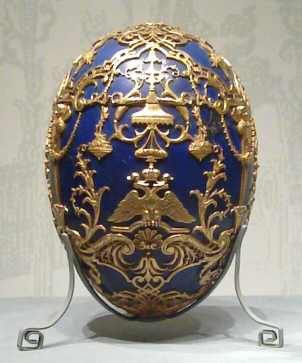 The Tsarevich Egg is a Fabergé egg, one in a series of fifty-two jewelled eggs made under the supervision of Peter Carl Fabergé. It was created in 1912 for Empress Alexandra Fyodorovna as a tribute by Faberge to her son the Tsarevich Alexis (Alexei). The egg currently resides in the Virginia Museum of Fine Arts.